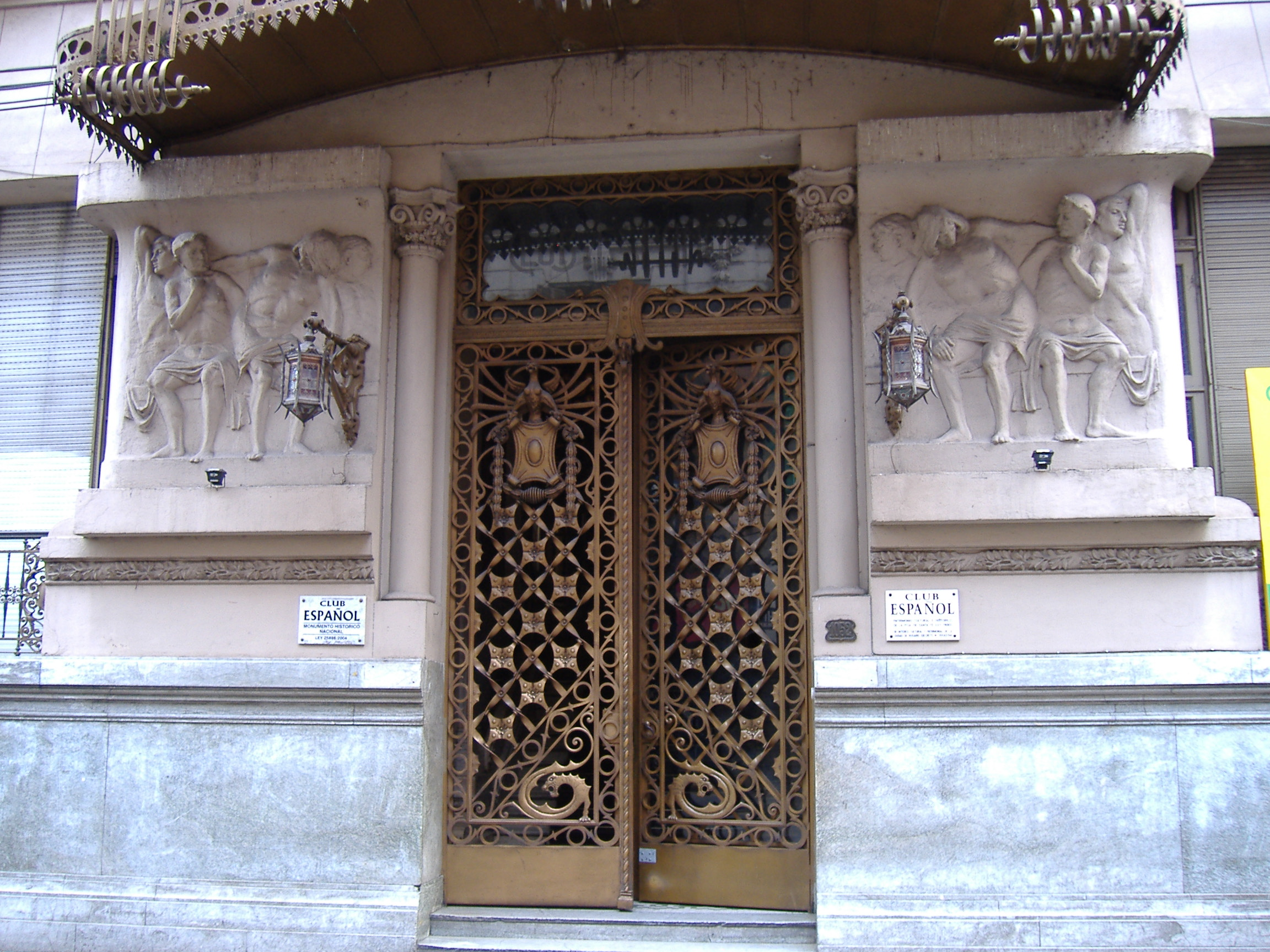 The lower facade of the Club Español ("Spanish Club"), a traditional organization in Rosario, Argentina. This building, located on 1050 Rioja St., has been declared a national historical monument. This picture was taken by Pablo D. Flores on 3 March 2006.